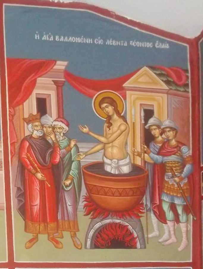 Paraskevi of Rome in cauldron